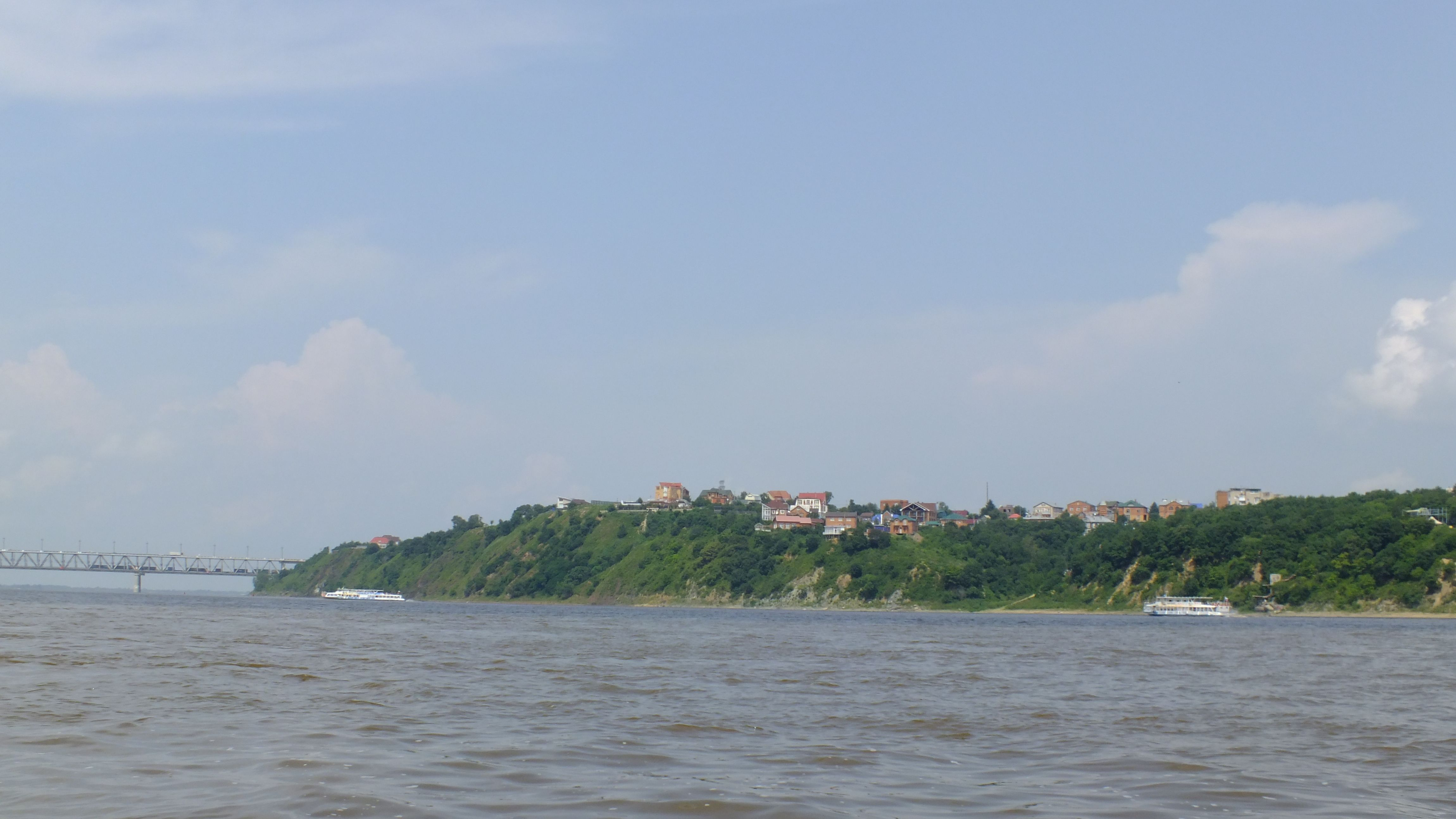 Khabarovsk